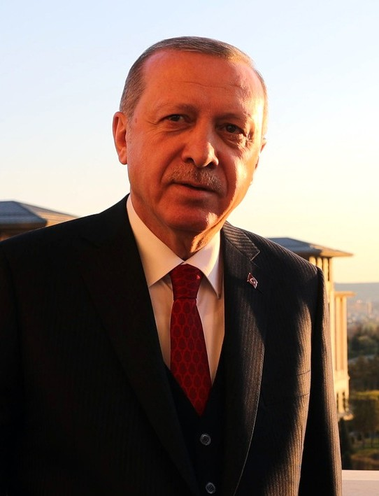 Russian President Vladimir Putin and Turkish President Recep Tayyip Erdogan chaired the seventh meeting of the High-Level Russian-Turkish Cooperation Council in Presidential Complex, Ankara, Turkey.